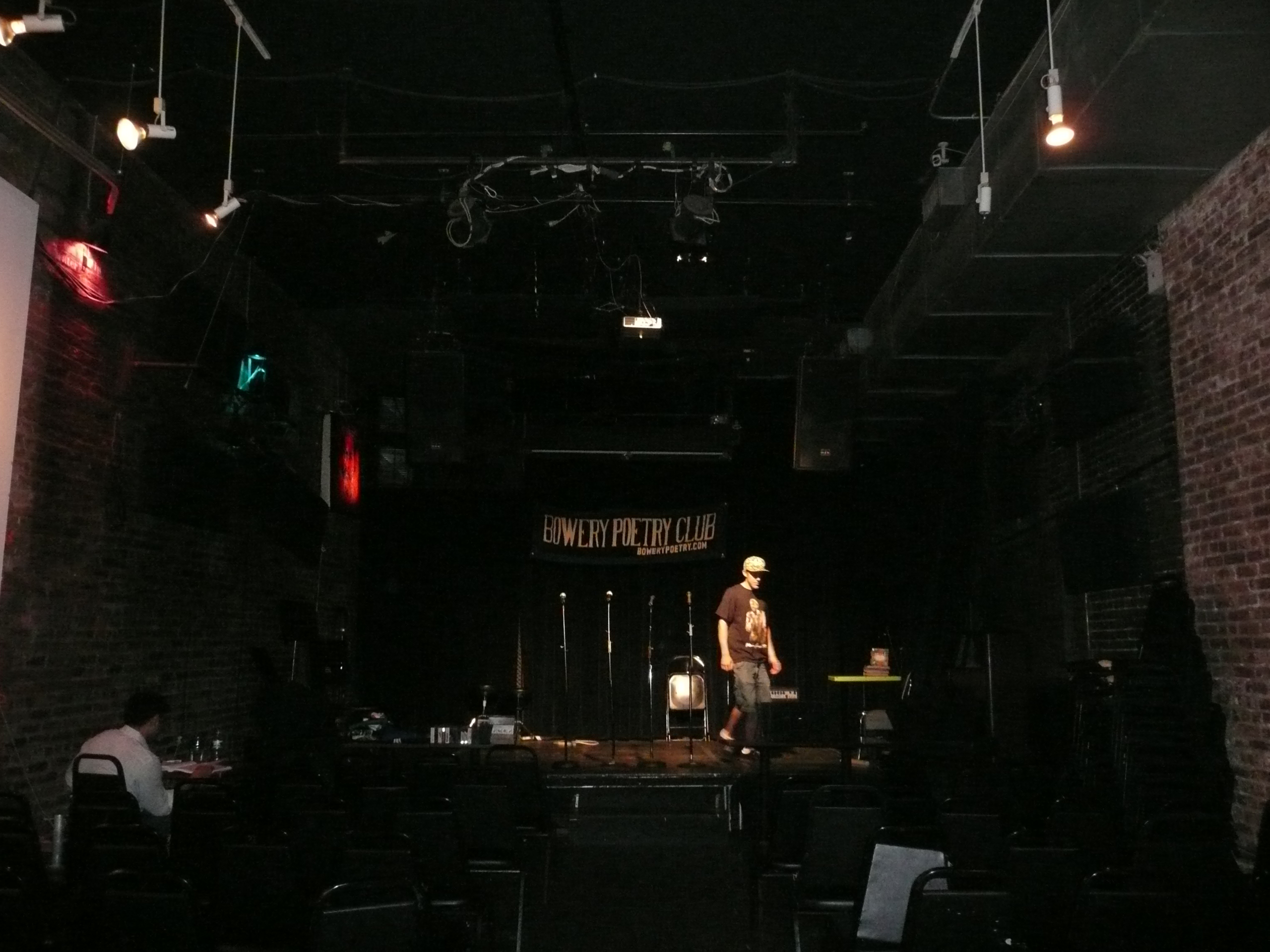 Inside of the Bowery Poetry Club in Manhattan, New York City.